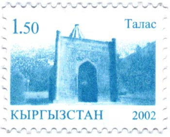 Stamp of Kyrgyzstan